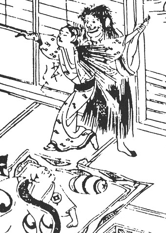 "Abe Sobei's wife's ghost" from the Shokoku Hyakumonogatari